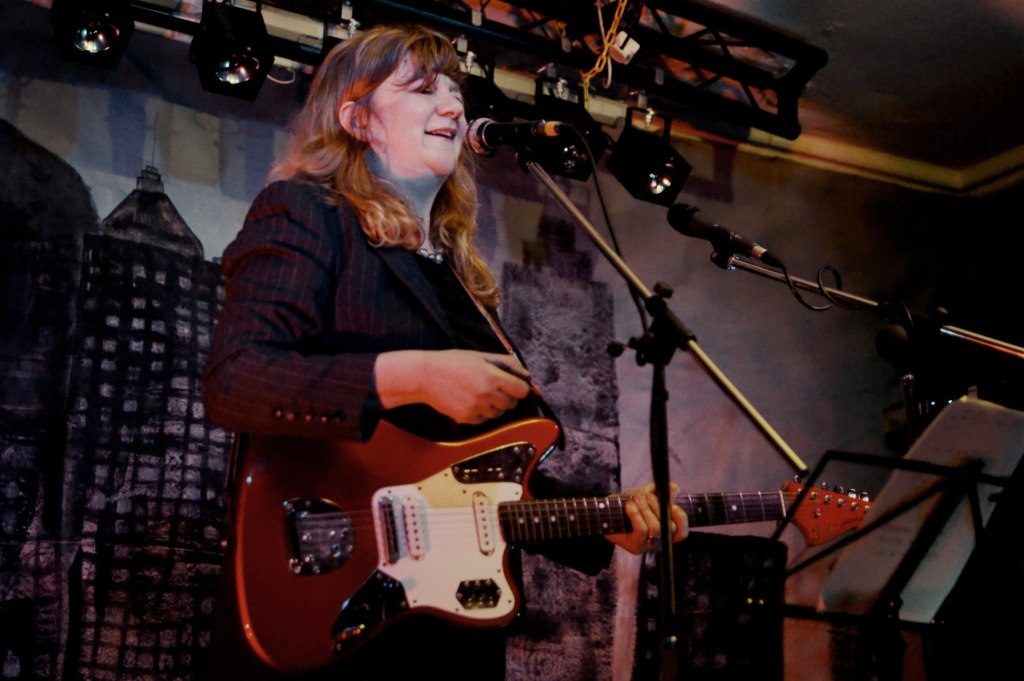 Gina Birch performing at Celebrating Sisterhood!, The Verge at The Cheshire Ring, on Saturday the 24th of March 2012.